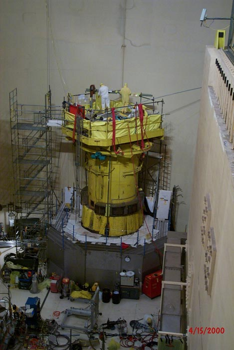 Davis-Besse Nuclear Power Station: Overview of the Davis Besse Reactor Head Inspection Area